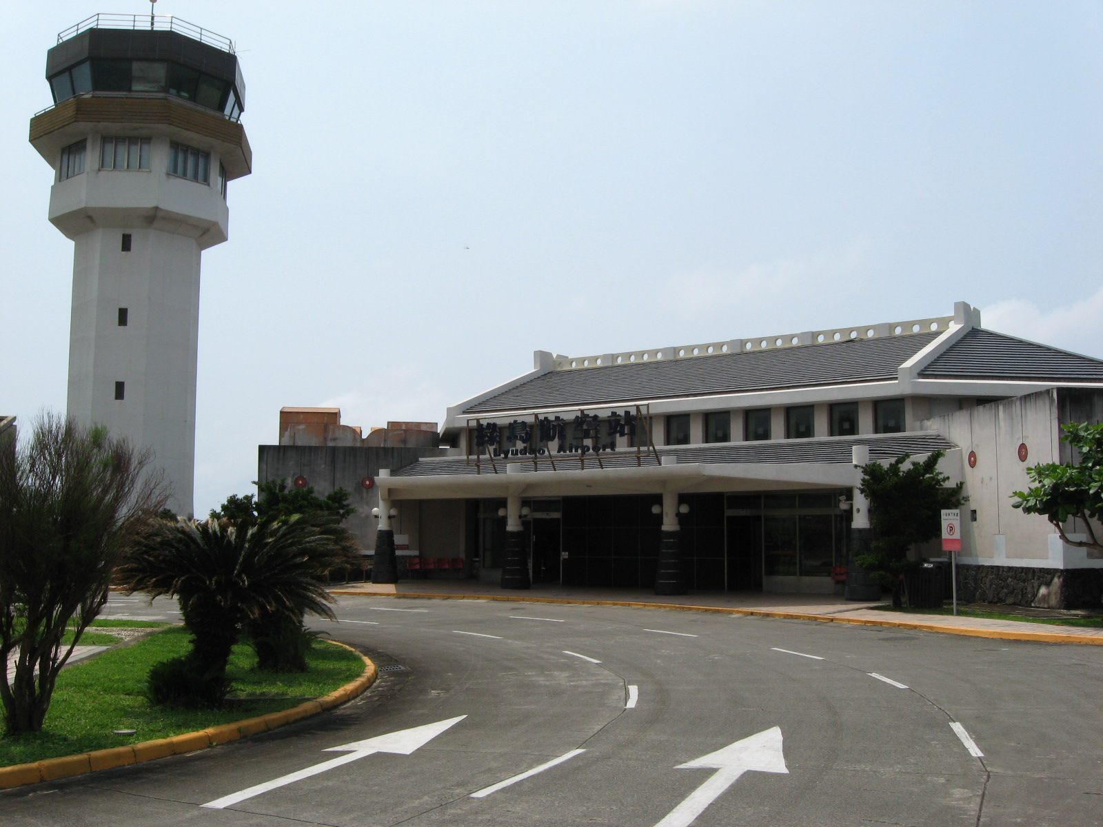 Lyudao Airport, Green Island, Taitung County, Taiwan